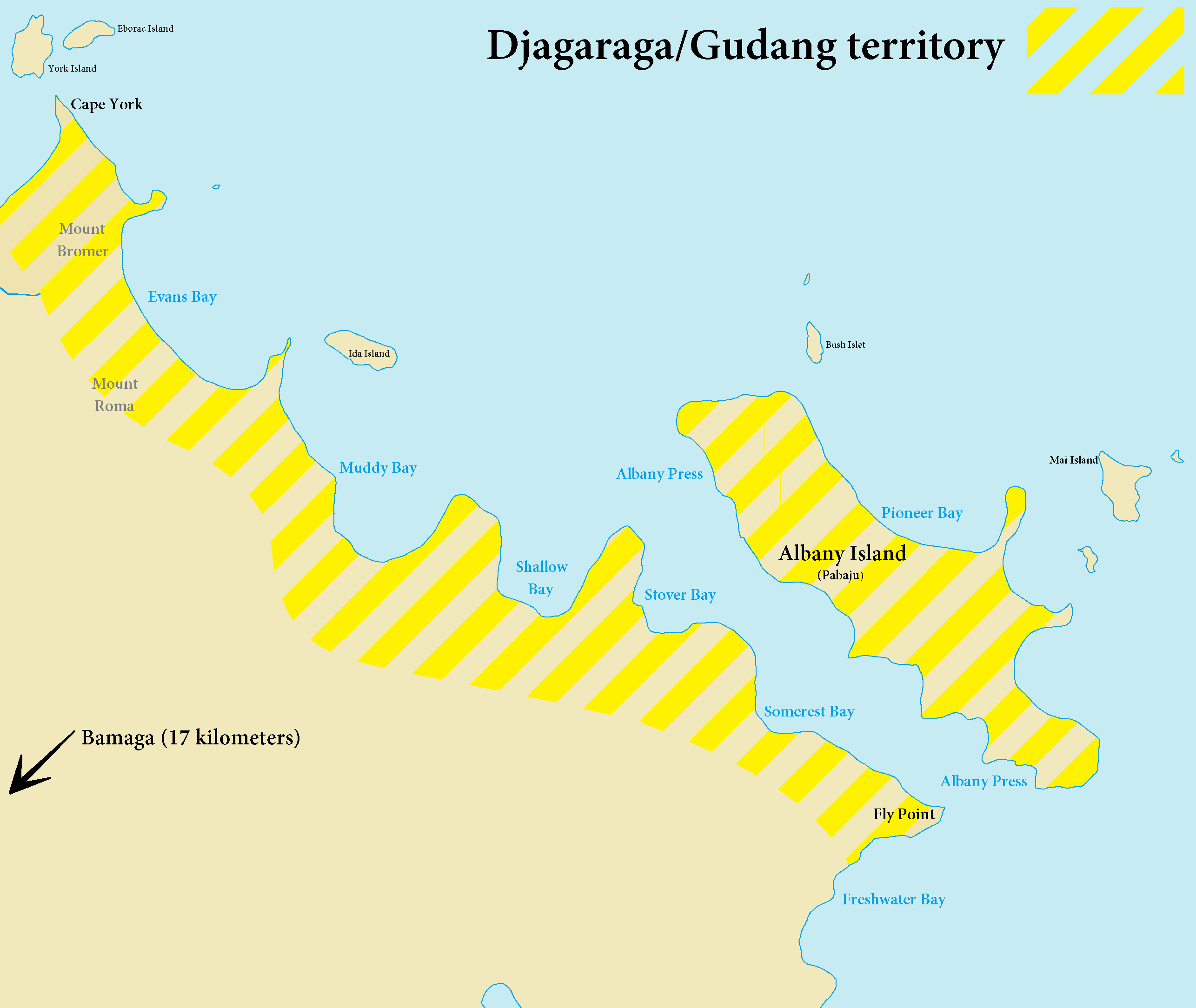 Terrirory of the people.